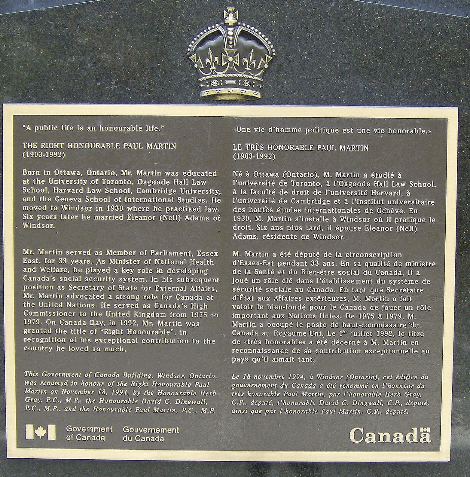 Plaque on the Federal Paul Martin Sr. building, Windsor, ON